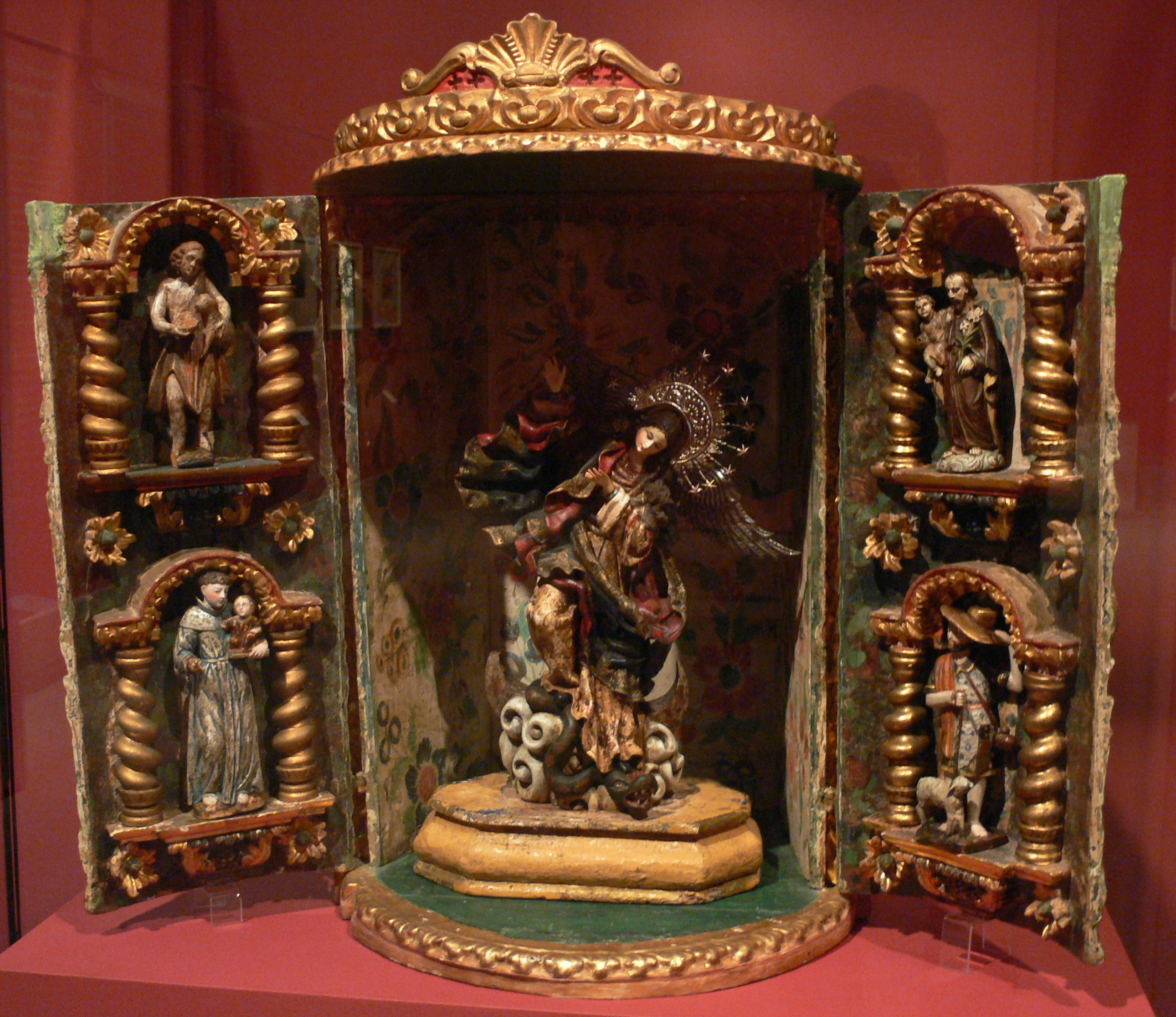 House altar with the Virgen de Quito. Wood, polychromy. Ecuador, 18th–20th century; Ethnological Museum, Berlin, Germany